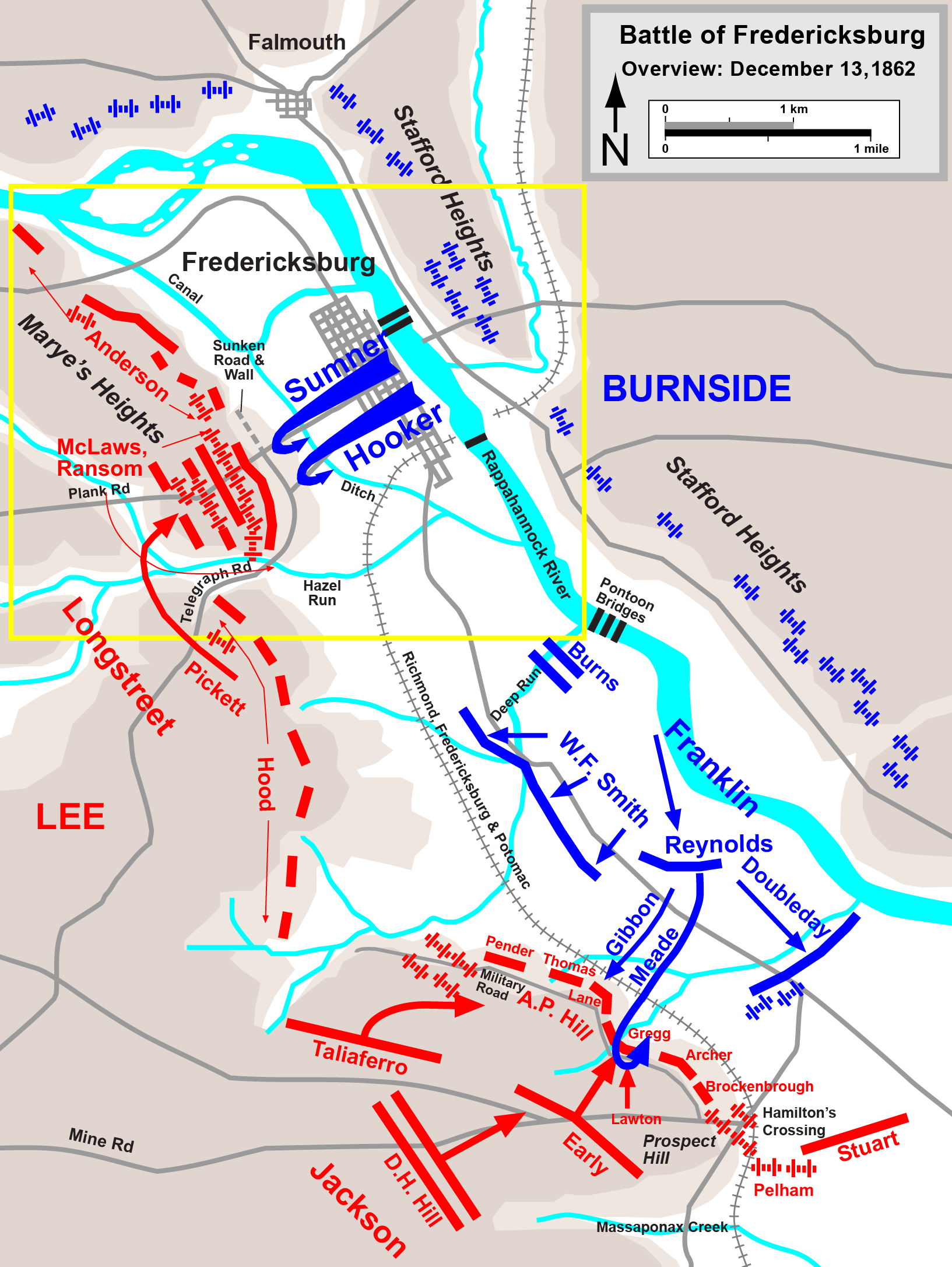 Map of the Battle of Fredericksburg of the American Civil War, overview. Drawn in Adobe Illustrator CS5 by Hal Jespersen. Graphic source file is available at